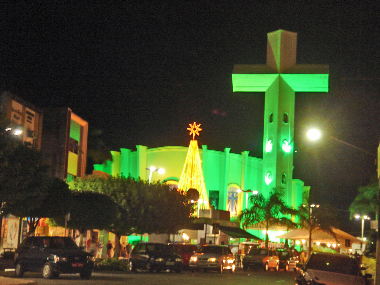 Downtown Arapiraca